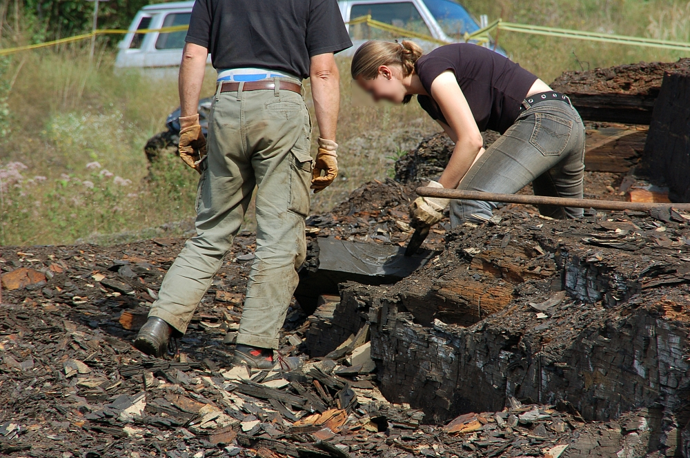 Grube Messel, near Darmstadt, Germany